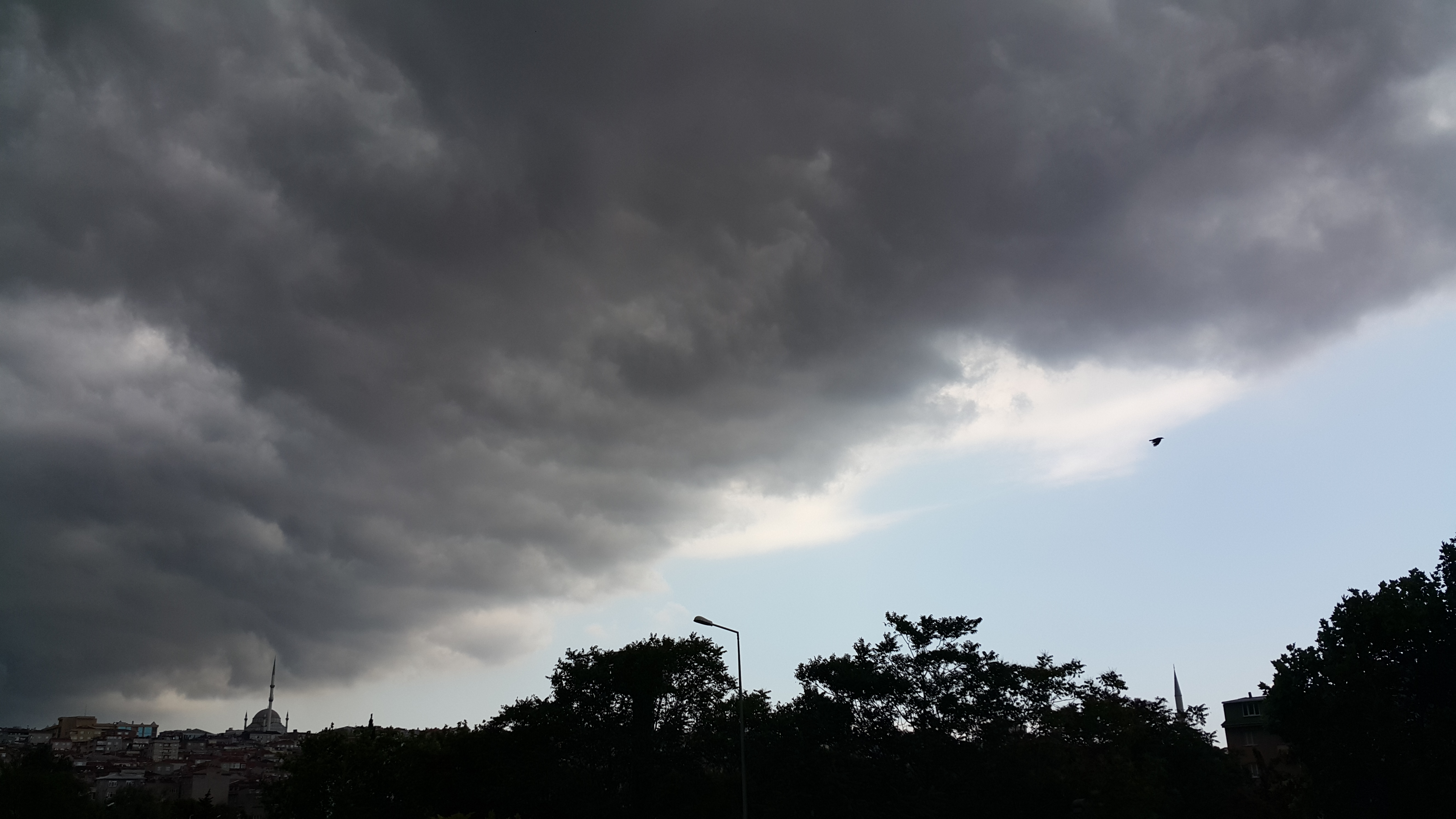 Cumulonimbus clouds edge in Istanbul, Turkey.